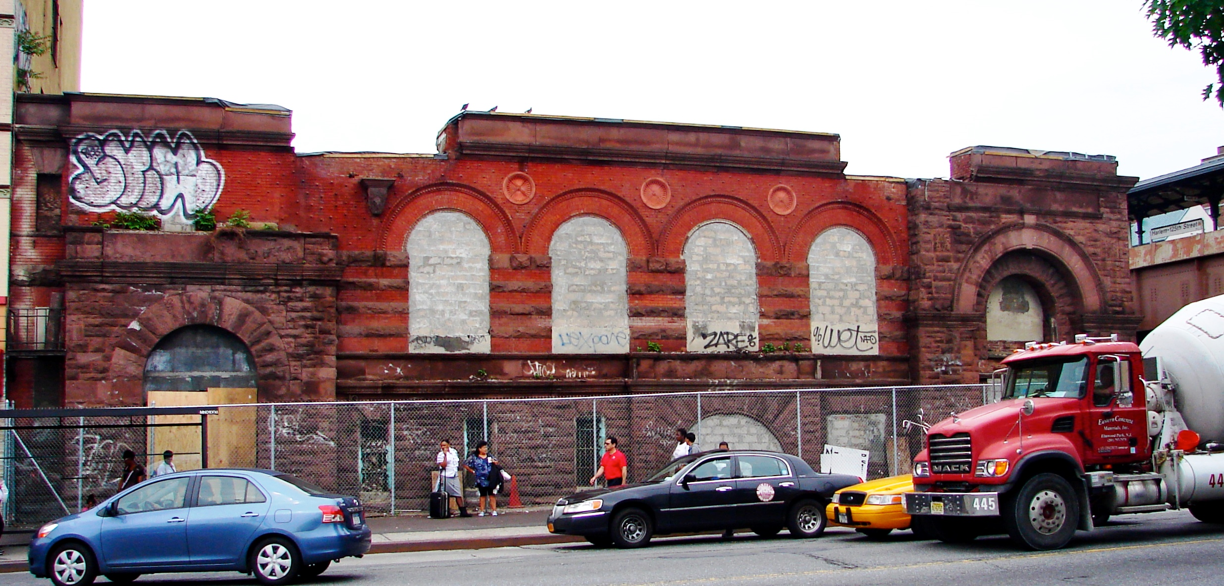 Mount Morris Bank on the NRHP since December 7, 1989. At E. 125th St. and Park Ave., New York, New York. Building was reduced to the first floor, due to crumbling walls. It is on northwest corner of Park and 125th.